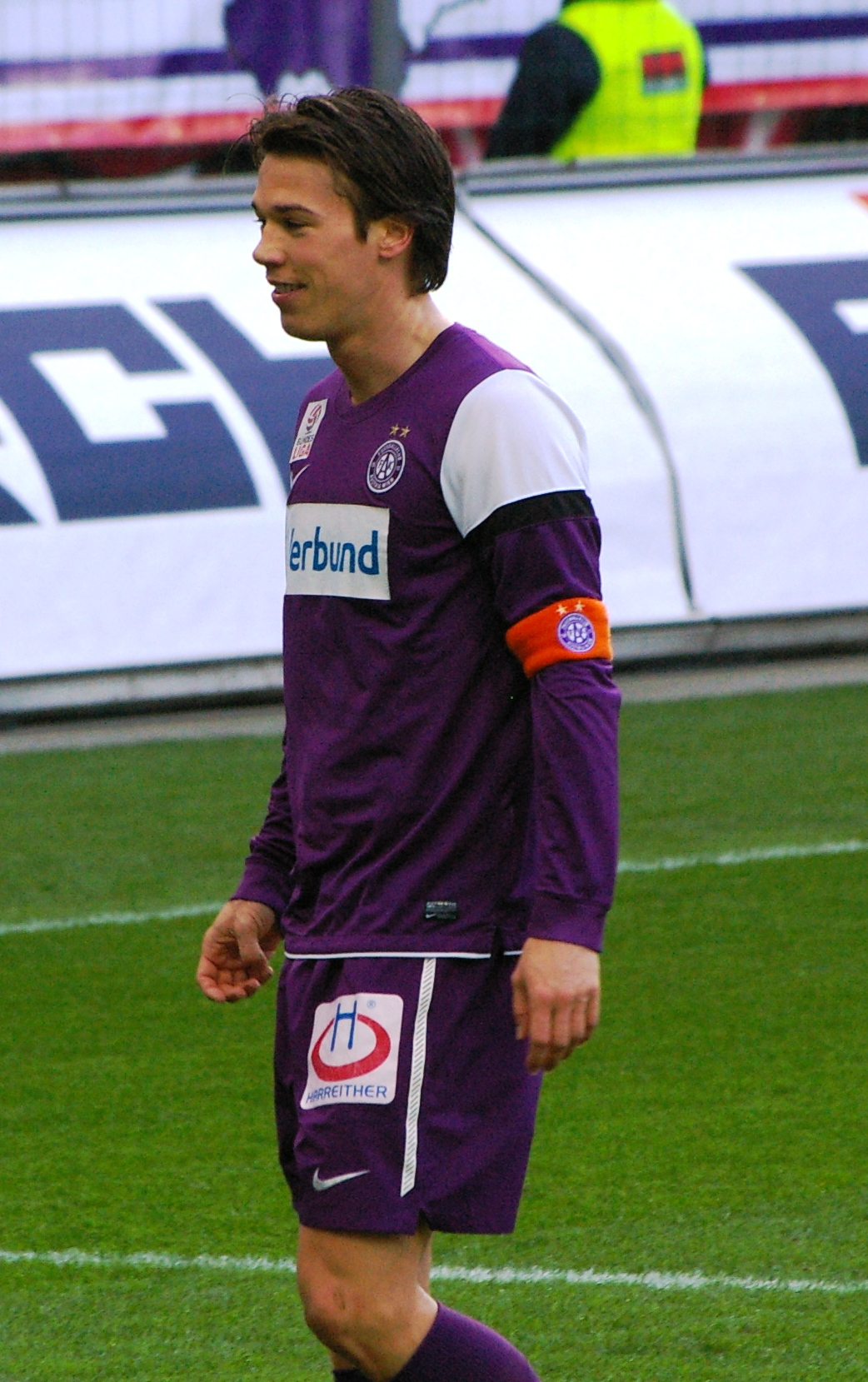 striker Austria Wien